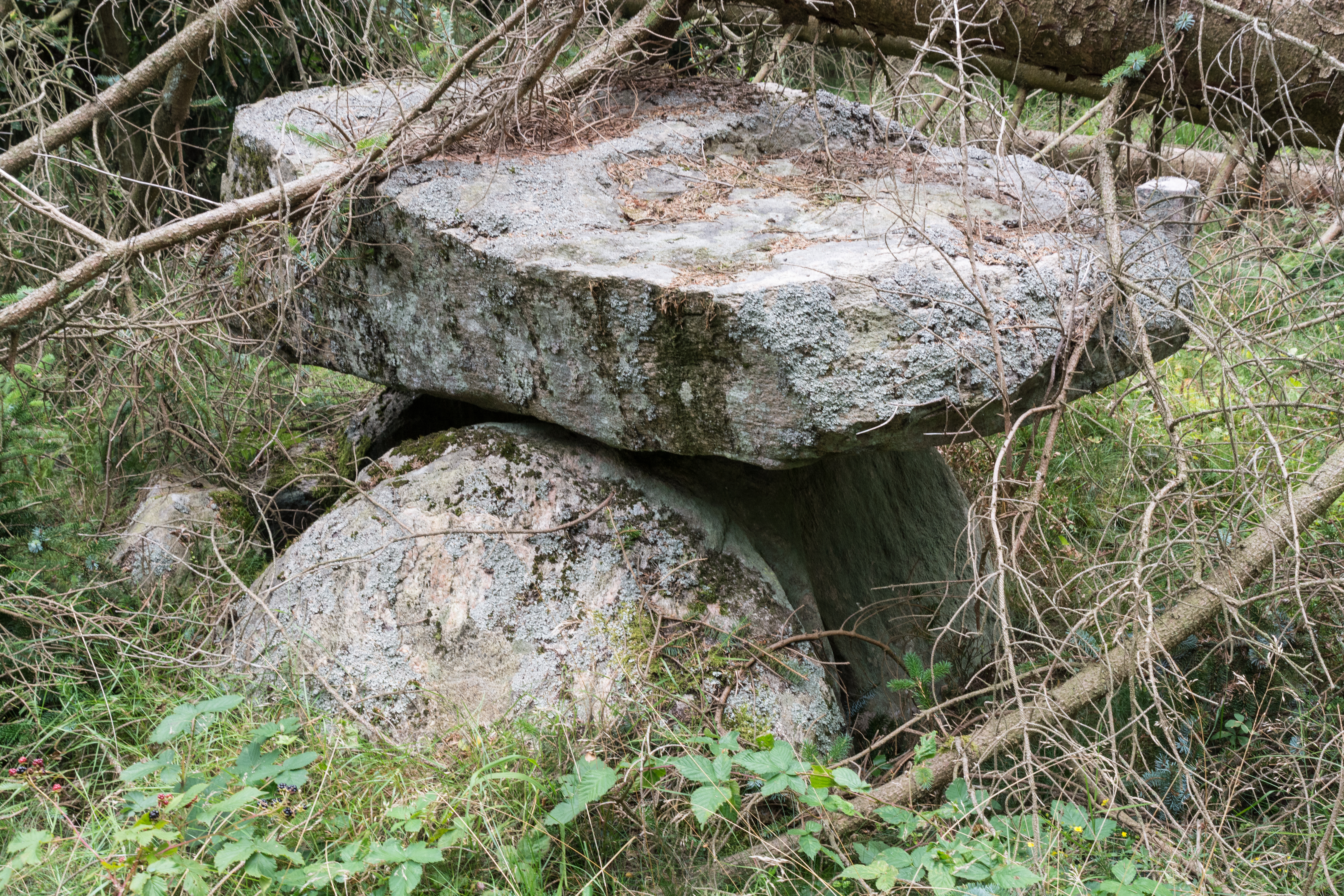 Tumulus Petersminde Langdysse (Norddjurs Kommune).